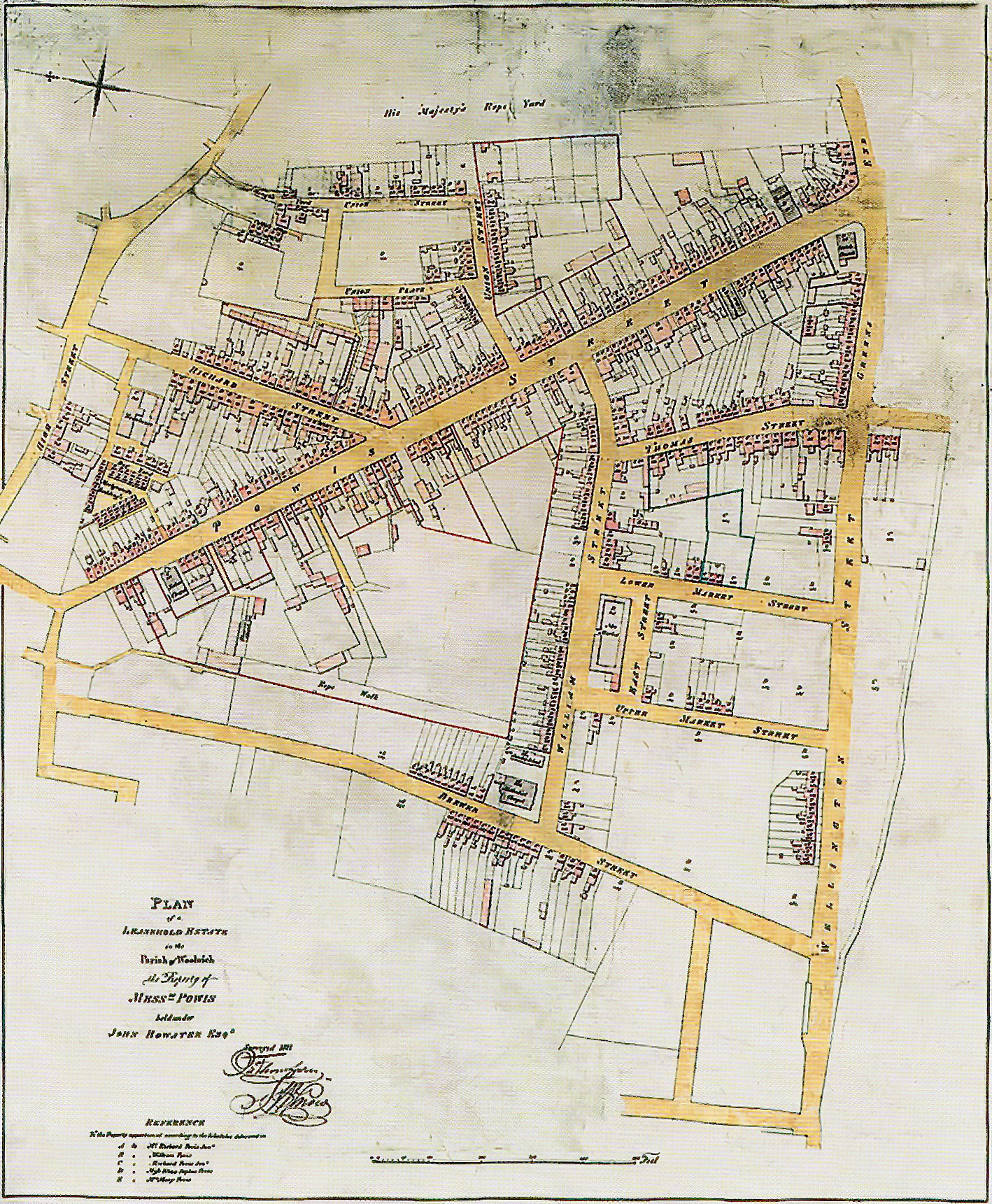 Map of the Powis Estate (Powis Street, Bathway Quarter), Woolwich, south east London, 1825. Collection of The National Archives).